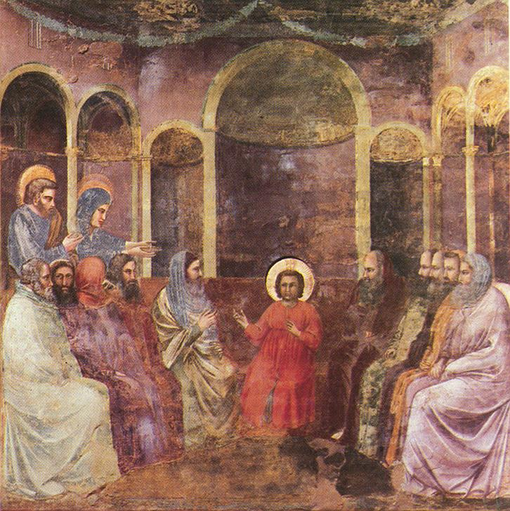 Life of Christ